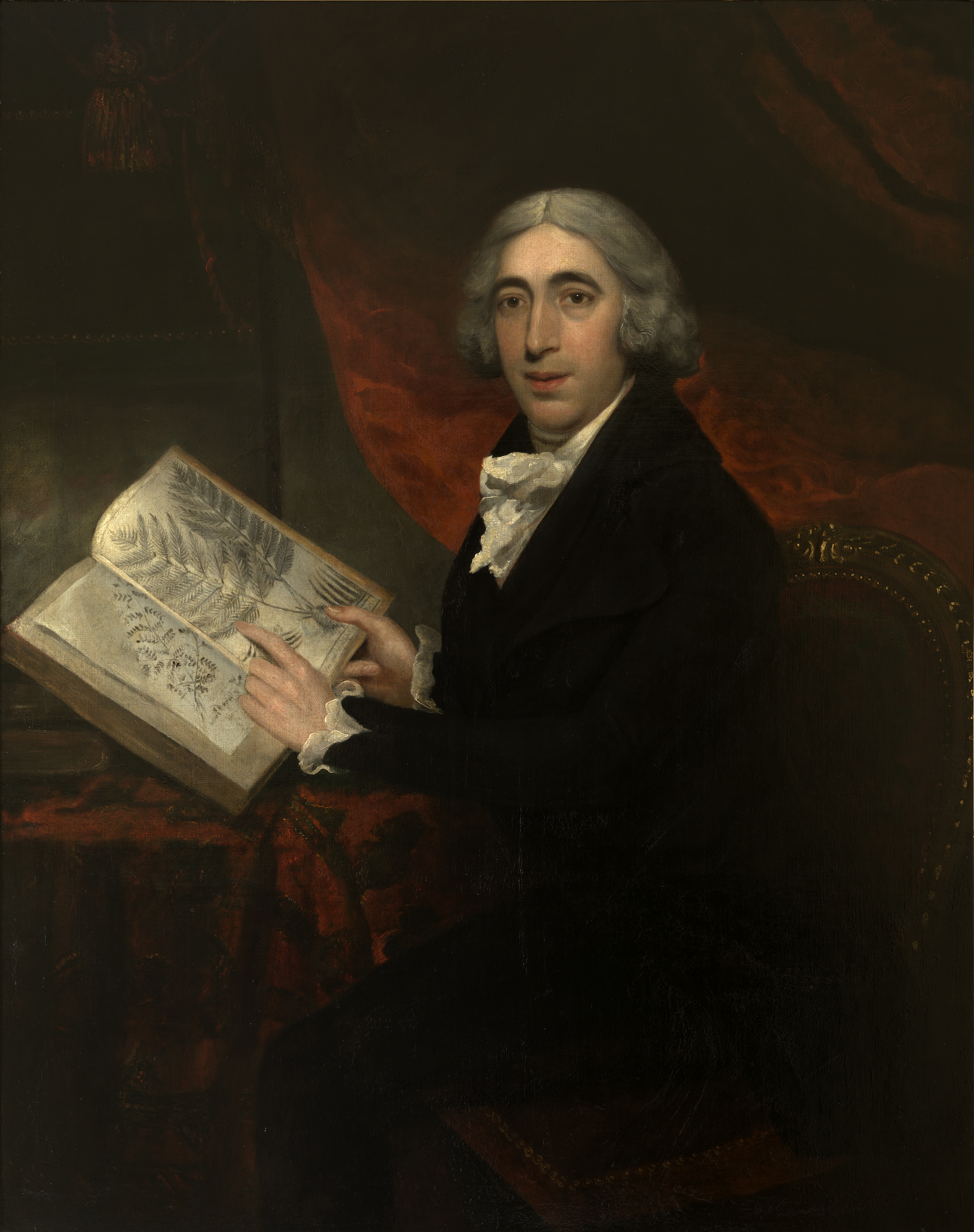 An oil portrait of Sir James Edward Smith, held by the Linnean Society of London